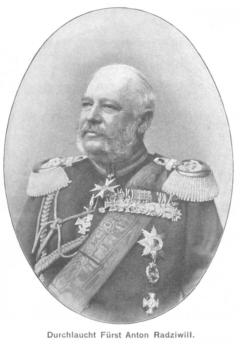 Portrait of Anton von Radziwill (1833-1904), Prussian general of Polish origin.